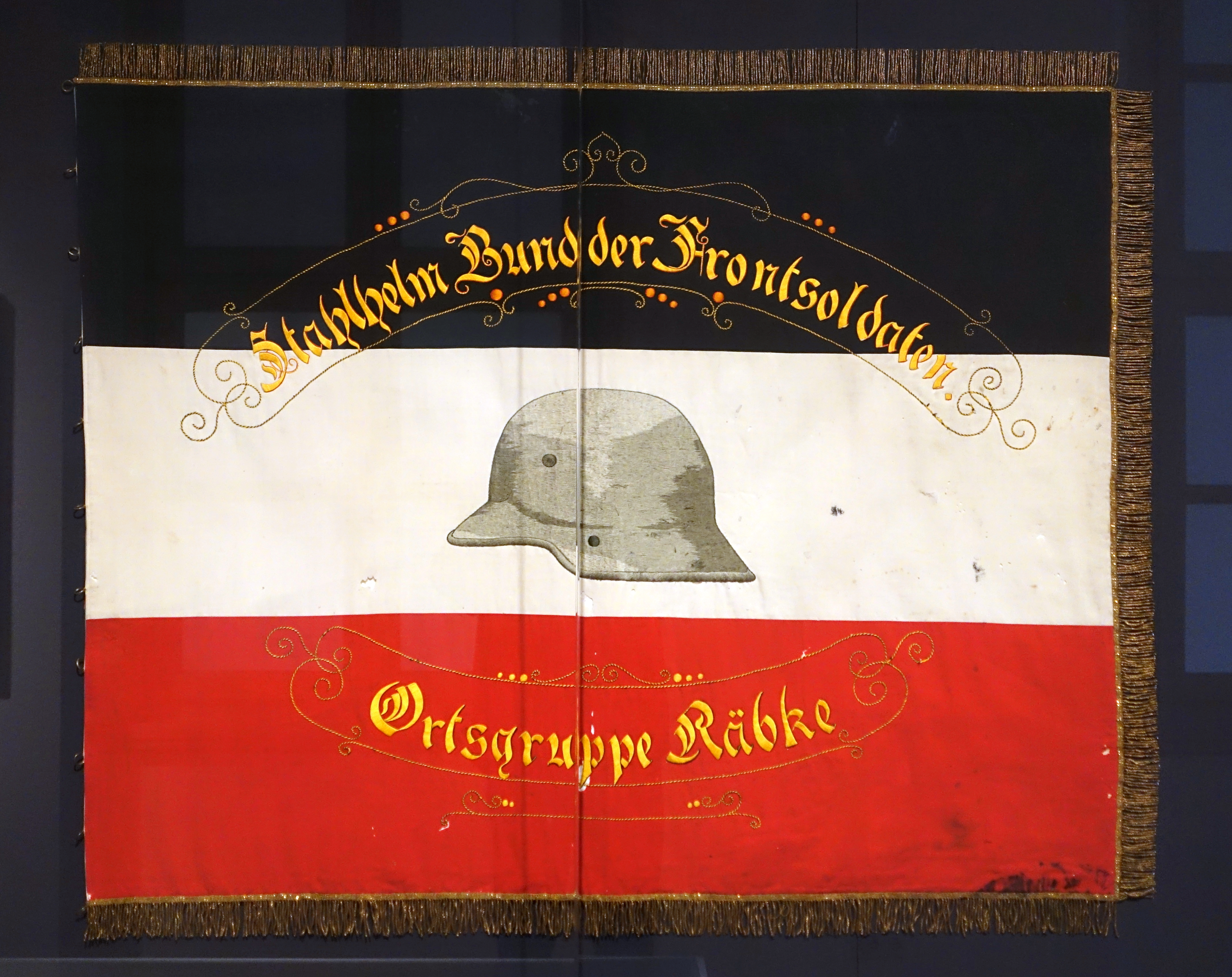 Exhibit in the Braunschweigisches Landesmuseum, Braunschweig, Germany. This work is in the public domain because the creator(s) died more than 70 years ago.